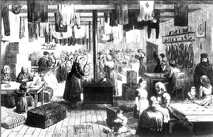 March 20, 1875, issue of Leslie’s magazine (New York) depicts temporary quarters for Volga Germans in central Kansas. URL = PD published in US before 1923